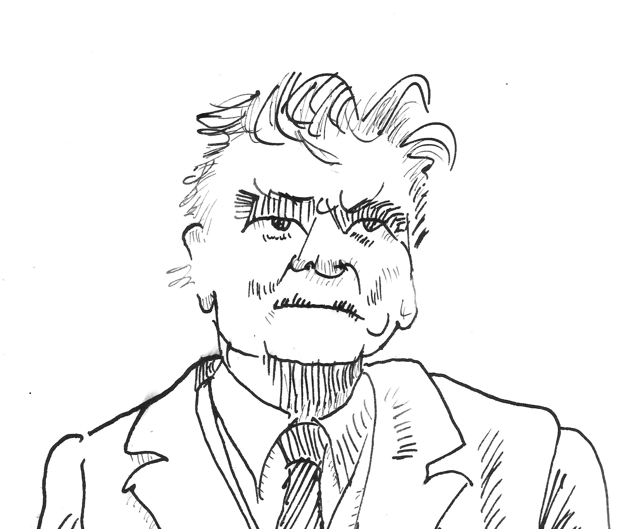 a pen & ink sketch of Bruno Koschmider